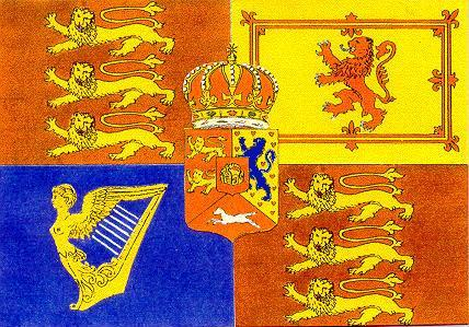 Drawn by Theo van der Zalm